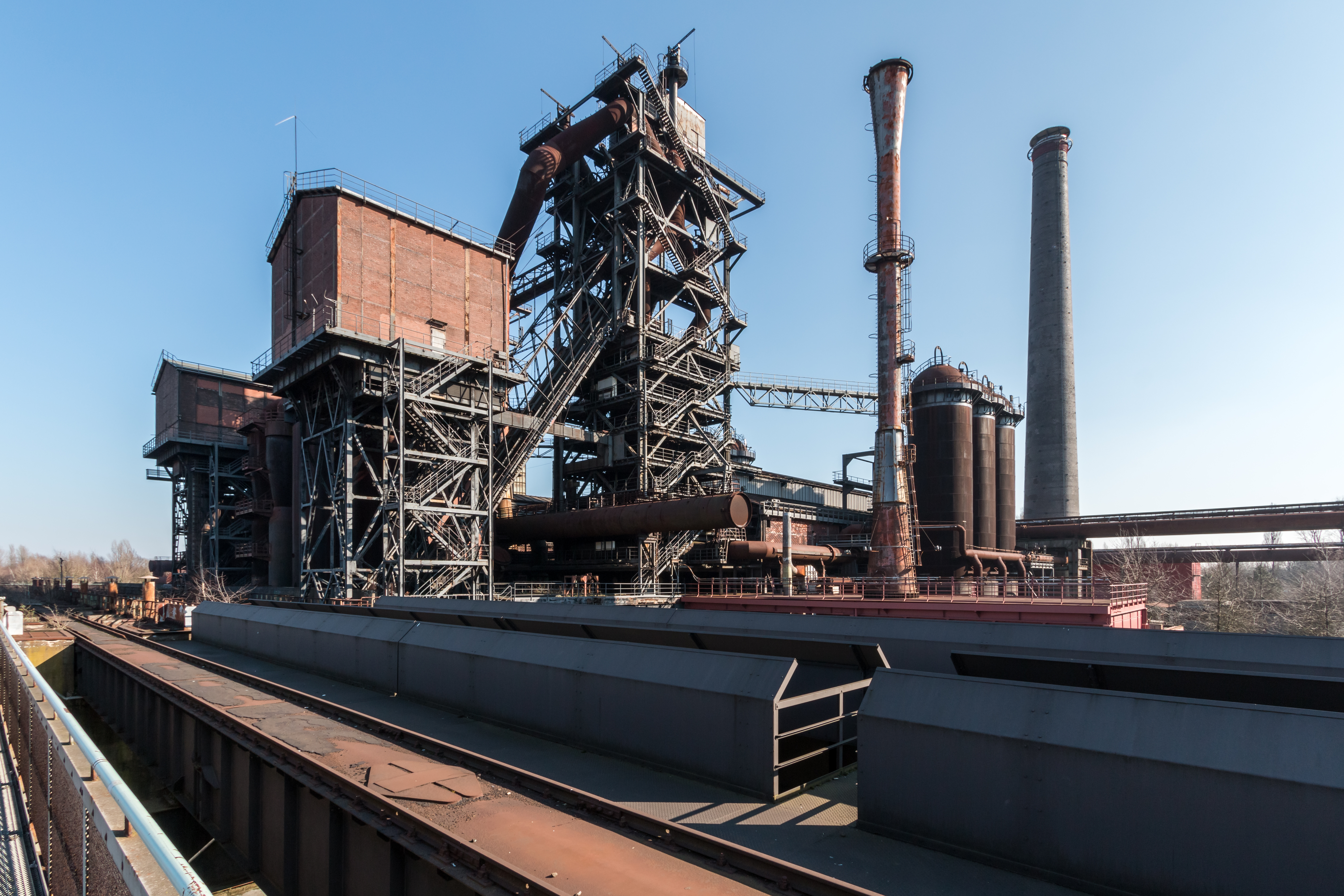 Blast furnace 2, Landschaftspark Duisburg-Nord in Duisburg, North Rhine-Westphalia, Germany